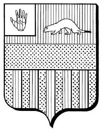 Cartier Coat of Arms family emblem